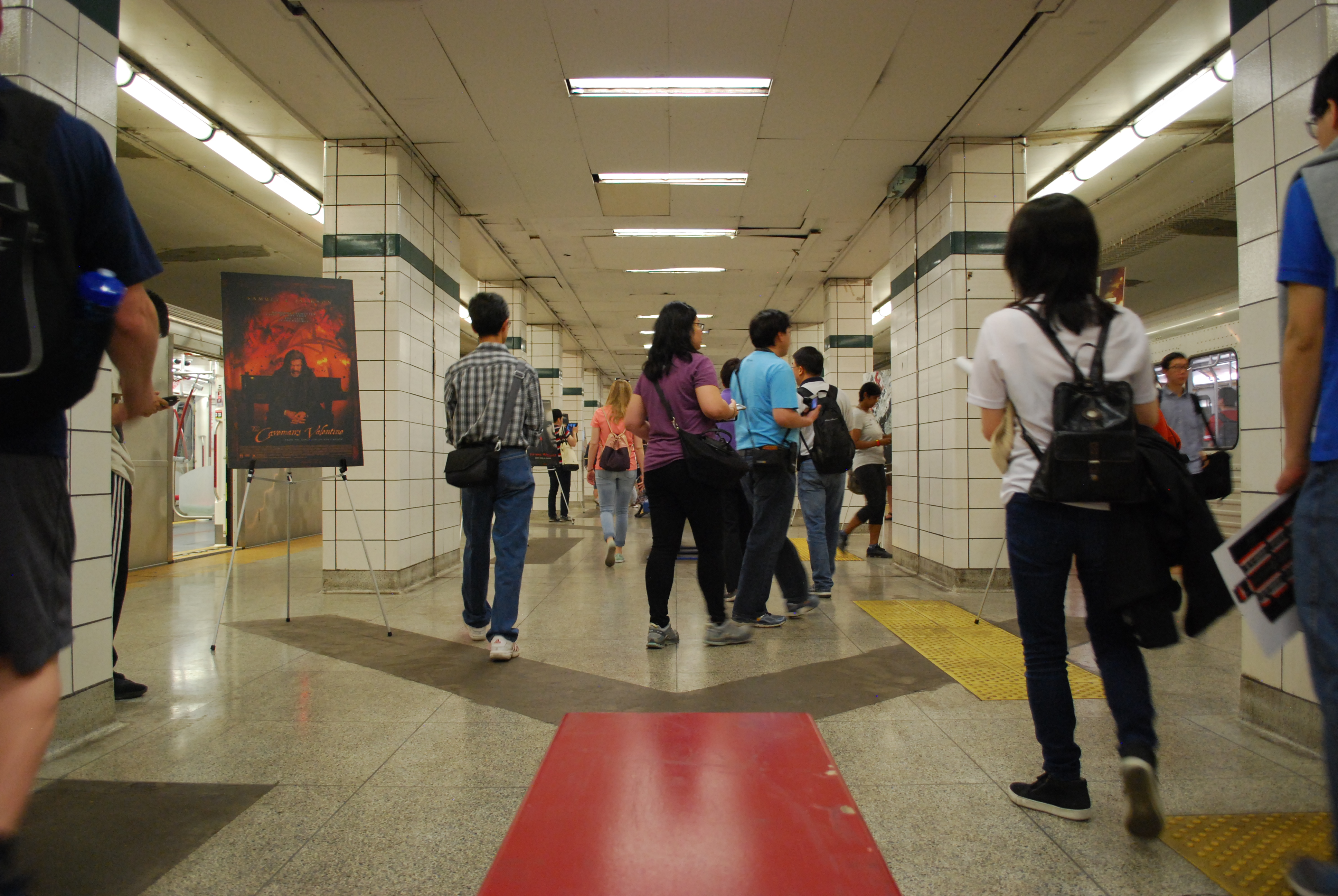 Lower Bay station during the 2018 Doors Open Toronto event on May 26, 2018.